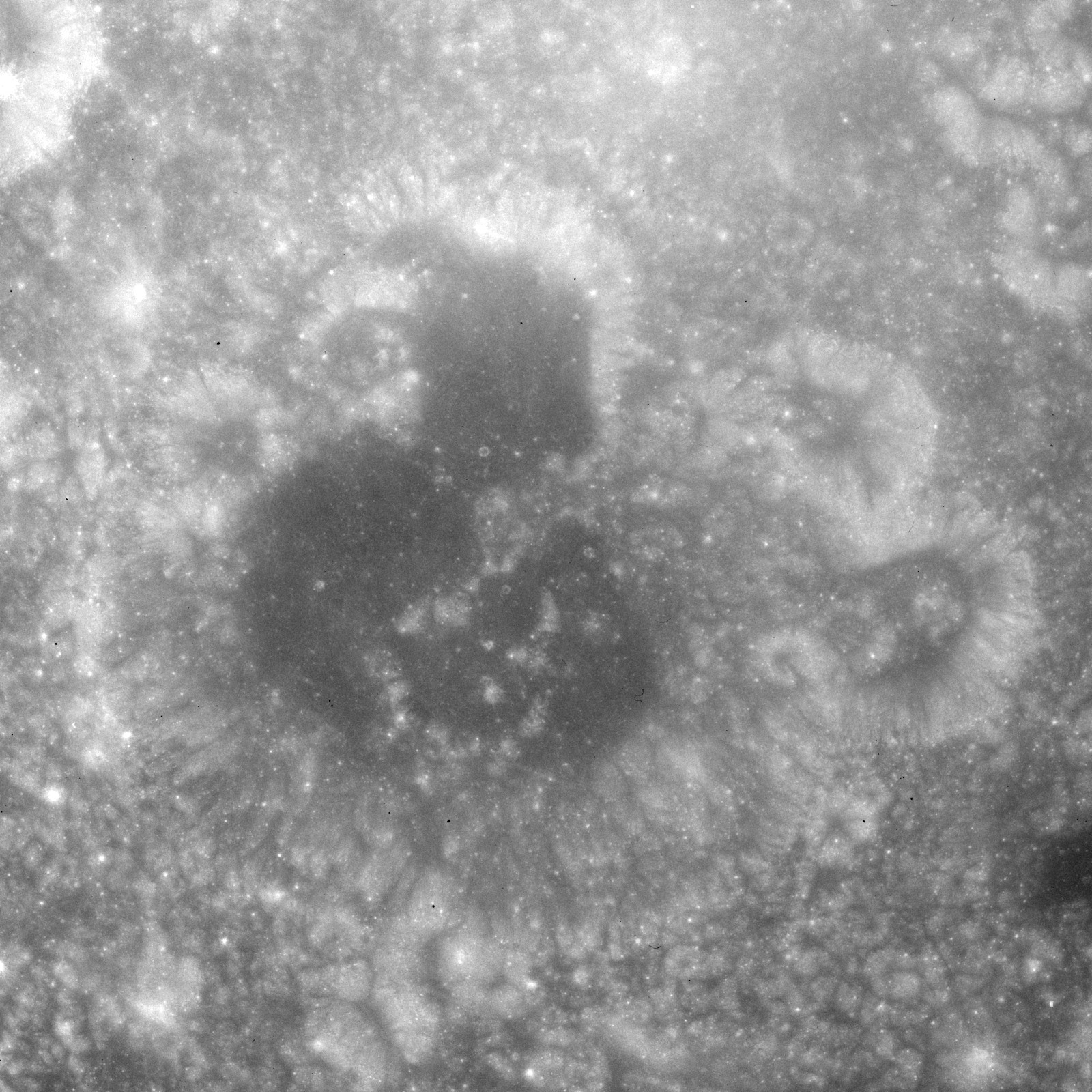 Apollonius crater, the moon. Rotated so that north is at top.